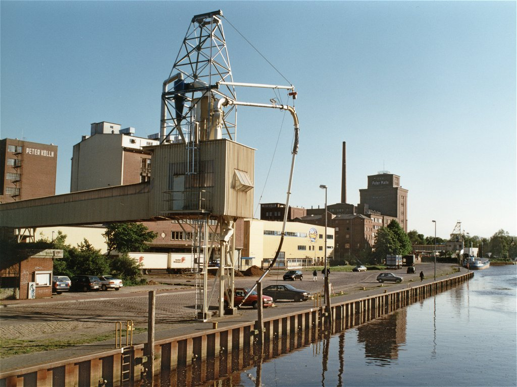 River Krückau in Elmshorn (Germany), photo 2000